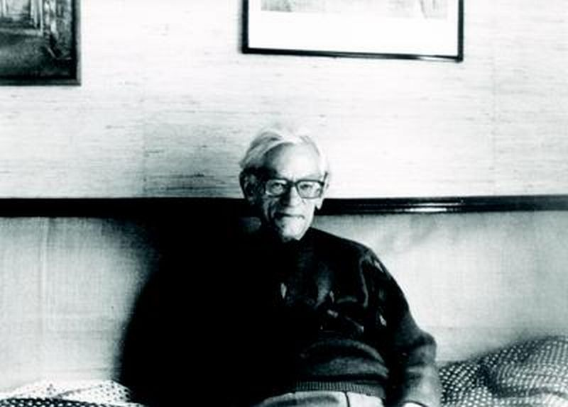 Roger Godement 1984